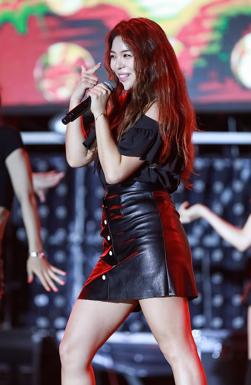 Ailee performing at 2018 K POP Mega Concert, August 25 2018.